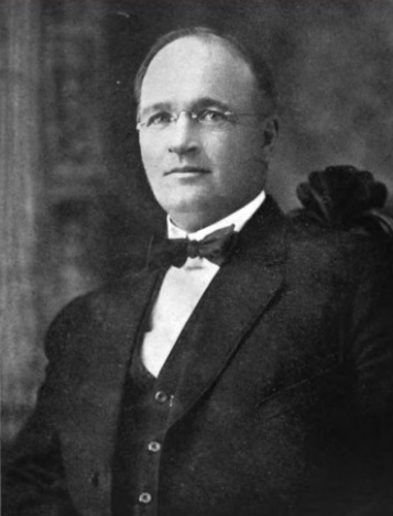 Elmer E. Studley (New York Congressman)